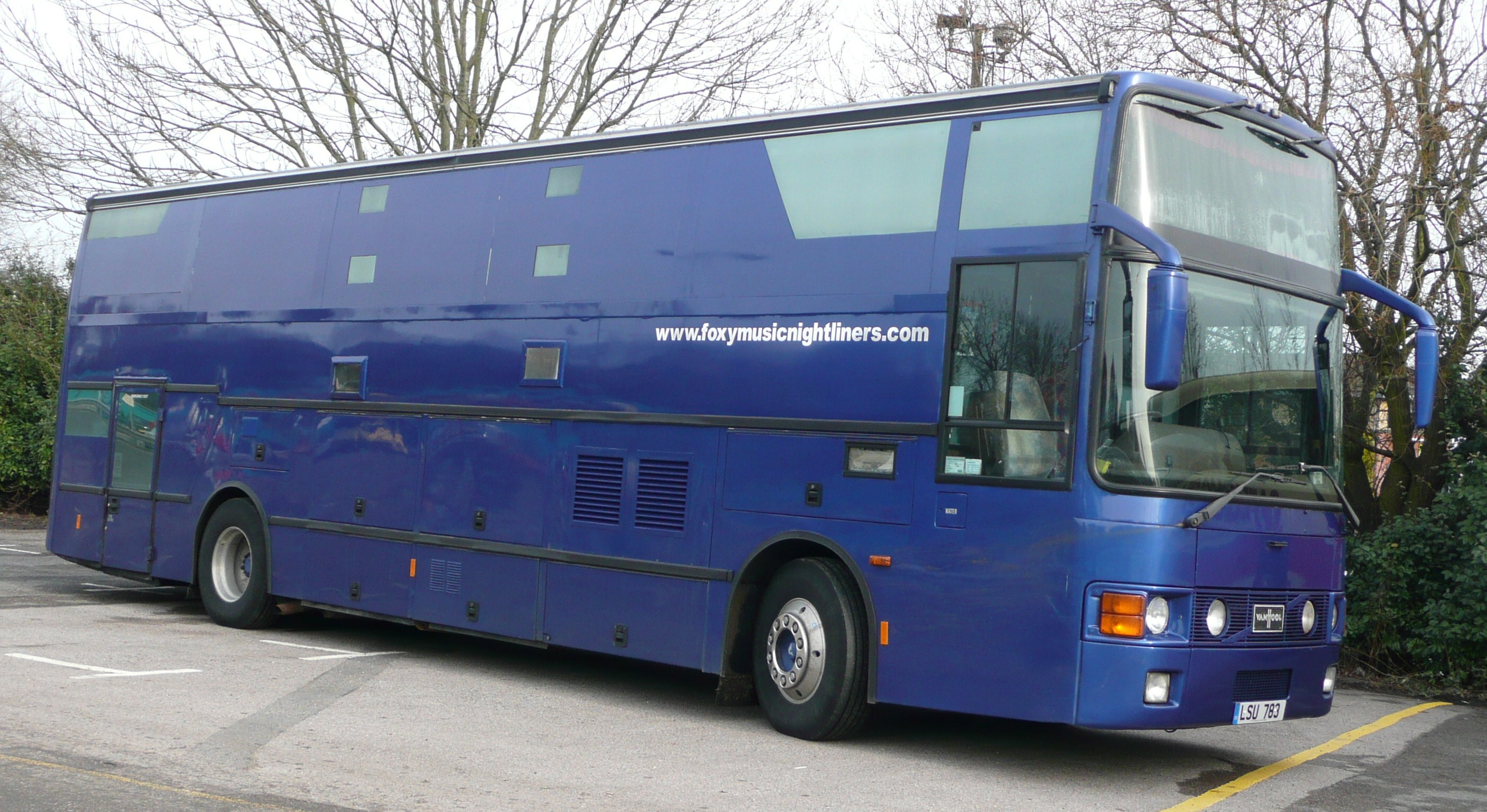 Foxy Music Nightliners' LSU 783 Foxy 2, a Van Hool coach parked in Guildford at the University of Surrey.